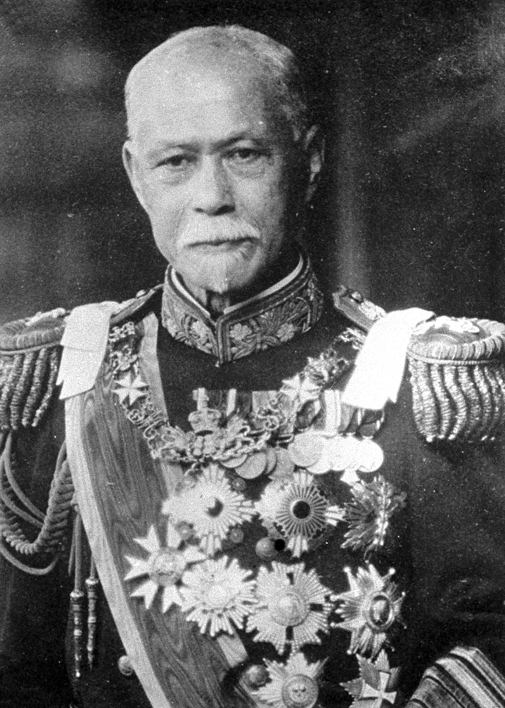 Portrait of Yamamoto Gonbee (山本権兵衛, 1852 – 1933)